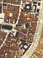 1-1-1-koenigshof-1850-stadtplan-mauern,_ausschnitt.jpg